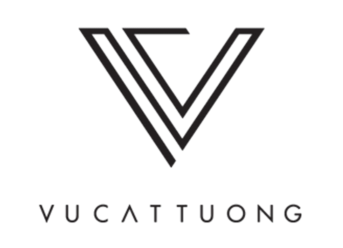 Vu Cat Tuong official logo